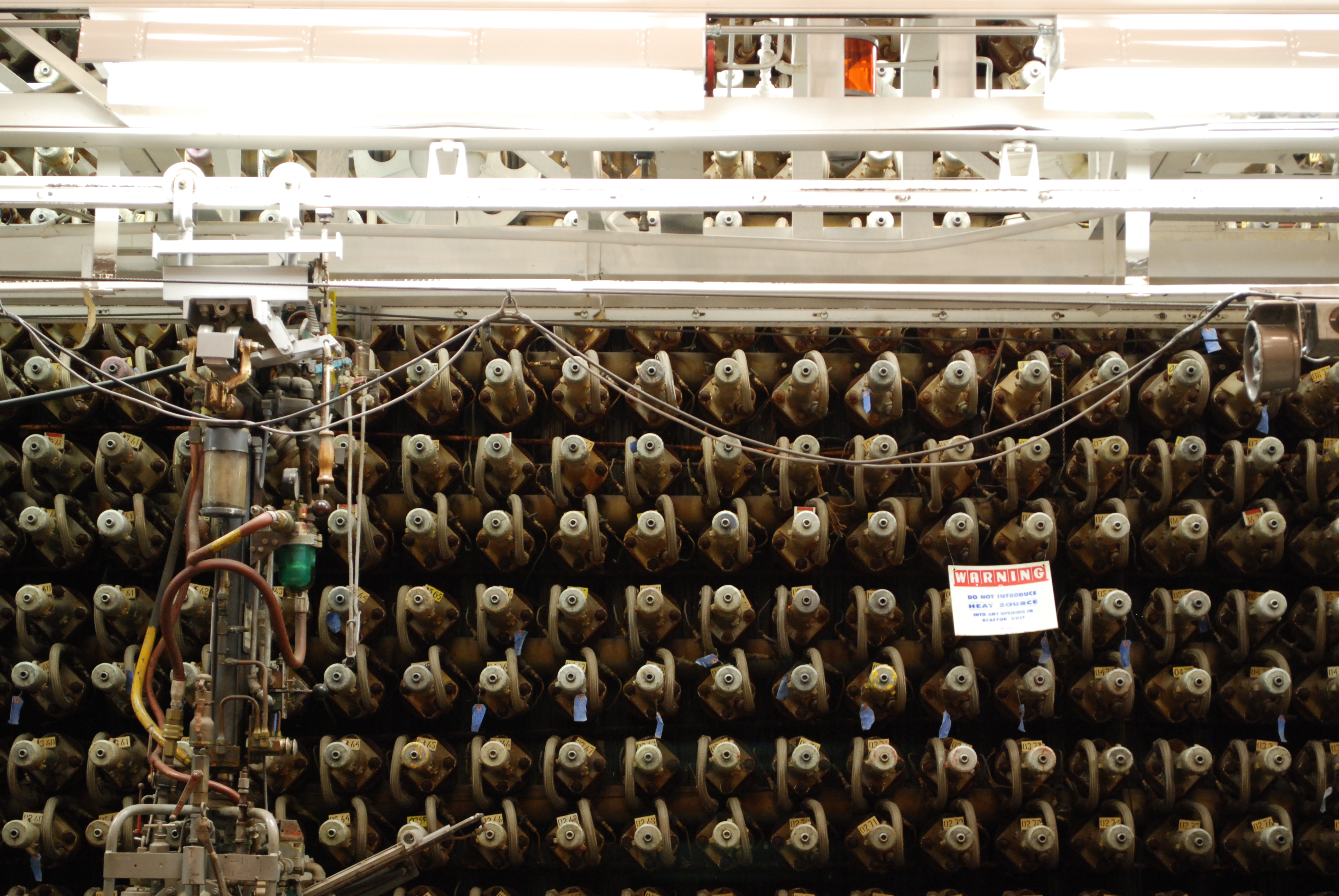 Hanford B Reactor Tubes and Elevator